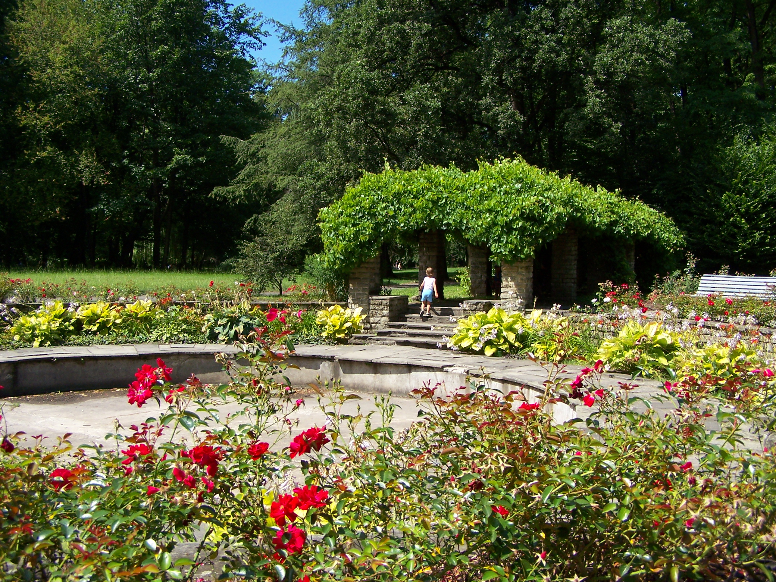 Rosary in Żywiec, Poland.